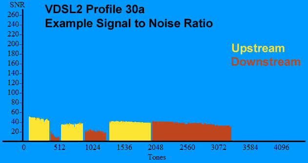 Signal to Noise Ratio of a VDSL2 Profile 30a 100 Mbit/s symmetric connection, loop length approx. 200 meters.